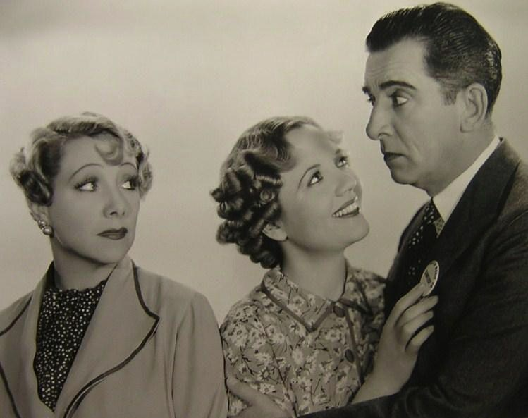 L. to R. : Marjorie Gateson, Lois Wilson, and Edward Everett Horton in the film Your Uncle Dudley (1935) - publicity still (original image damaged, modified and cropped : see source)